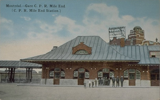 Mile End Station, Montreal, Canada.